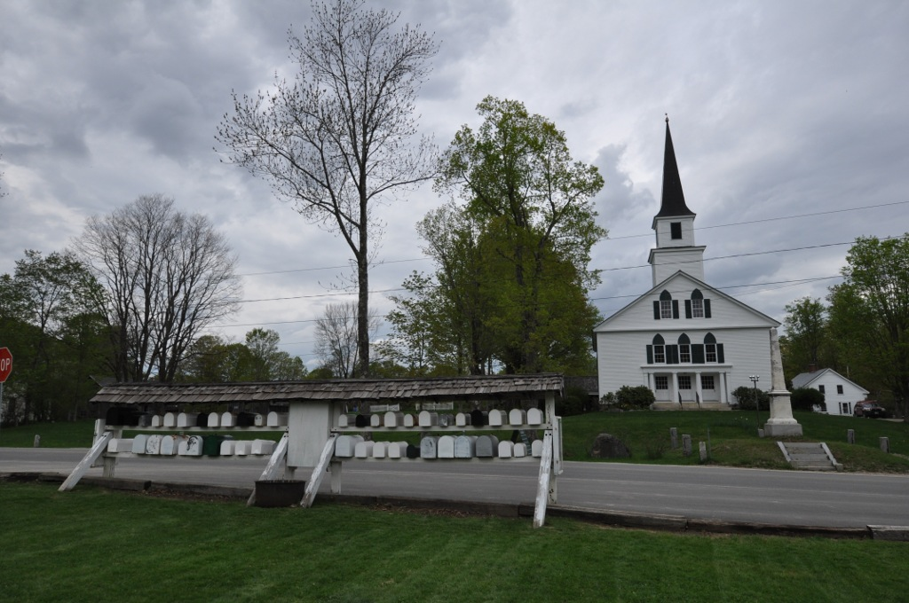 The community church and "post office" row of mailboxes in Nelson.